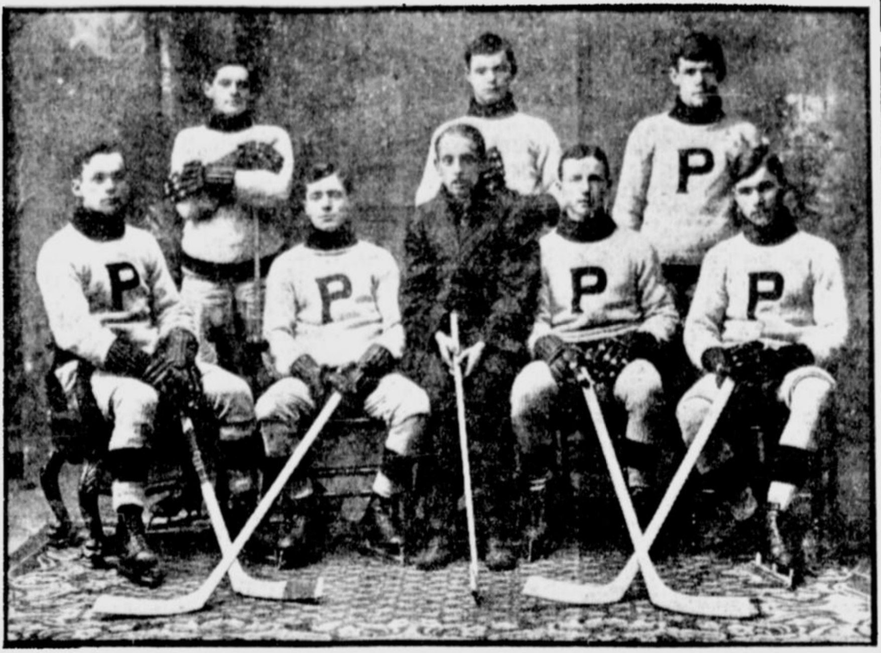 Pembroke Hockey Club of the Upper Ottawa Valley Hockey League (UOVHL) in 1910–11. Hockey Hall of Fame members Harry Cameron and Frank Nighbor are seated at far left and far right respectively in the front row.